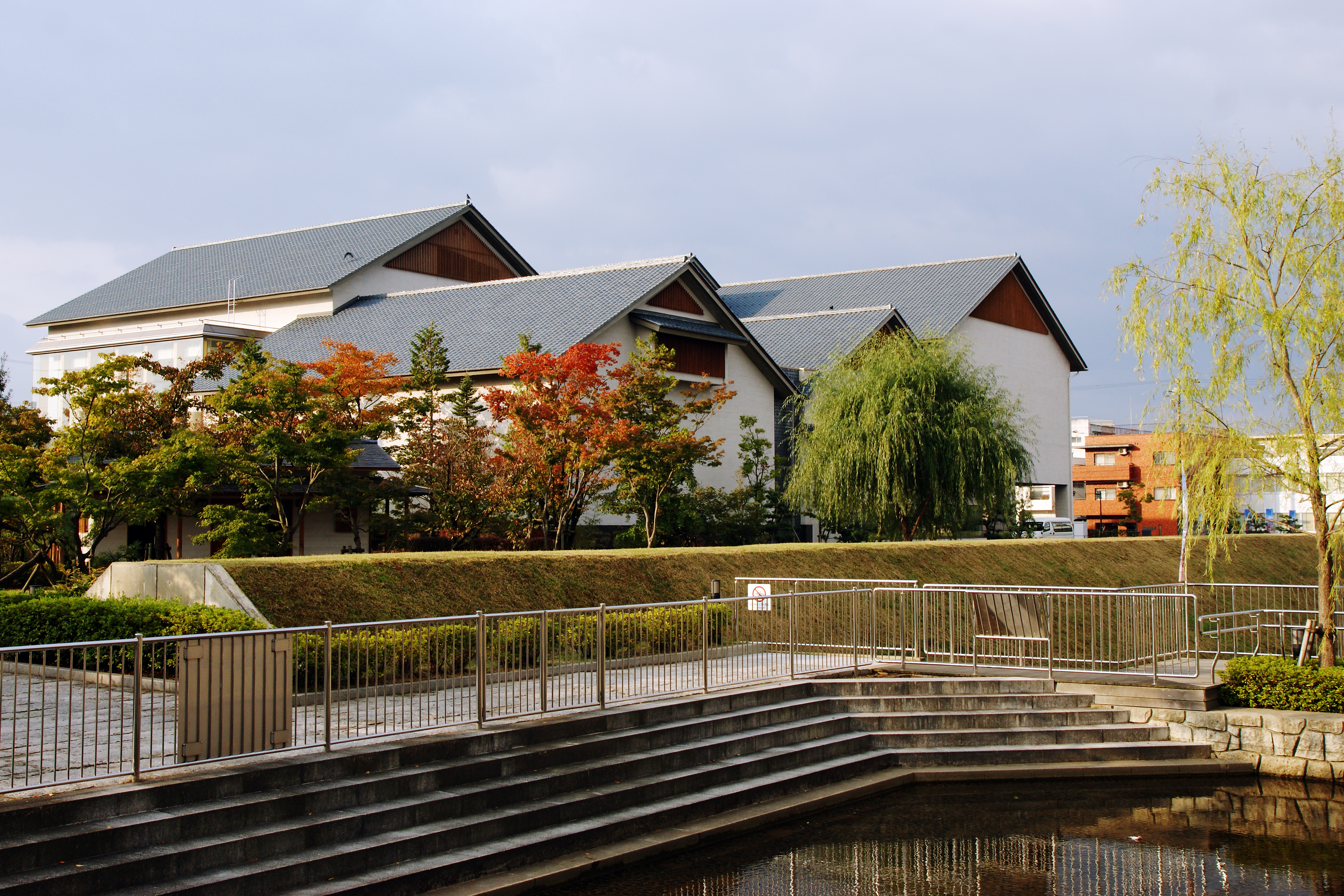 Fukui City History Museum, Fukui, Fukui prefecture, Japan